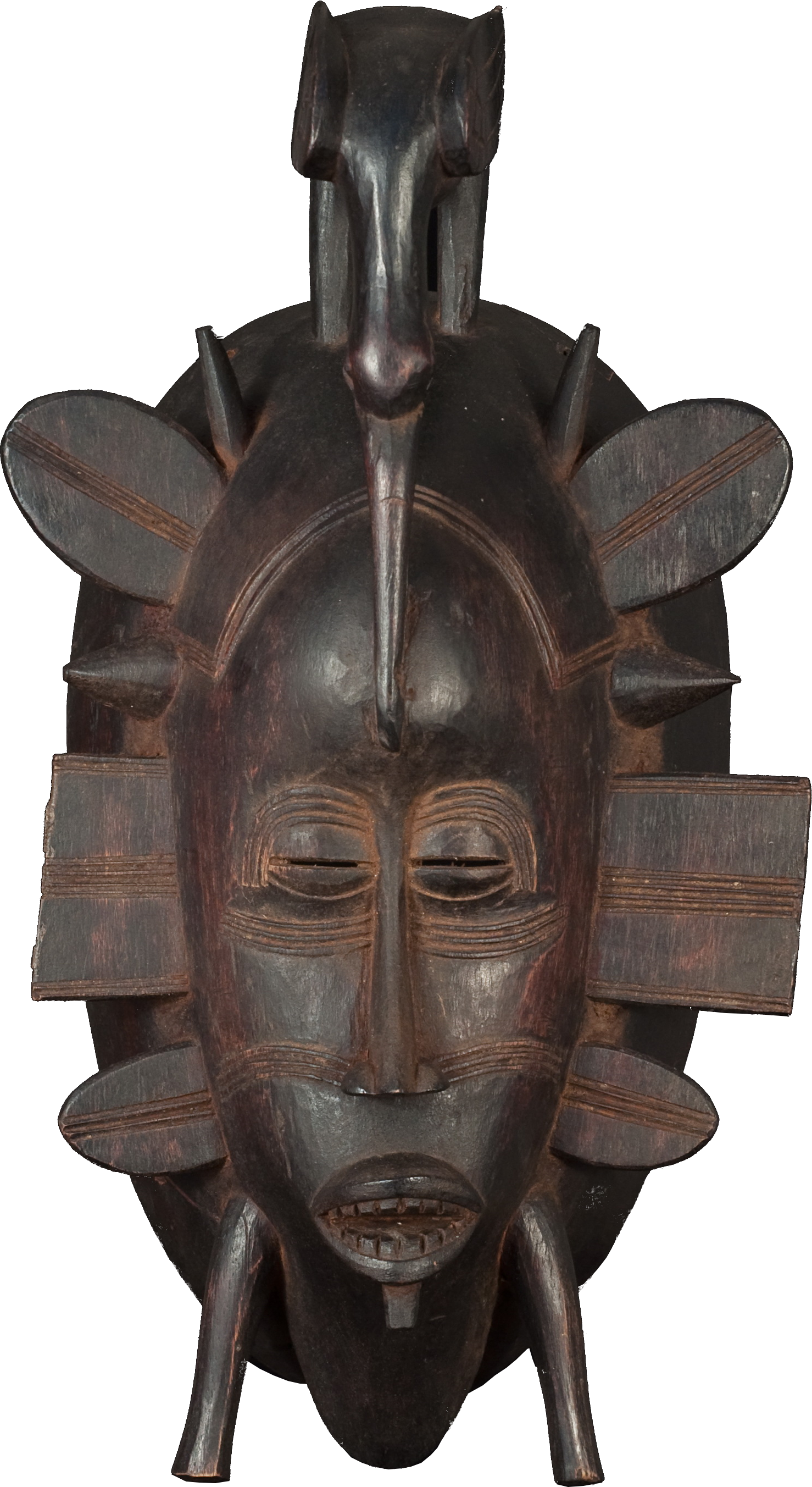 Senoufo mask